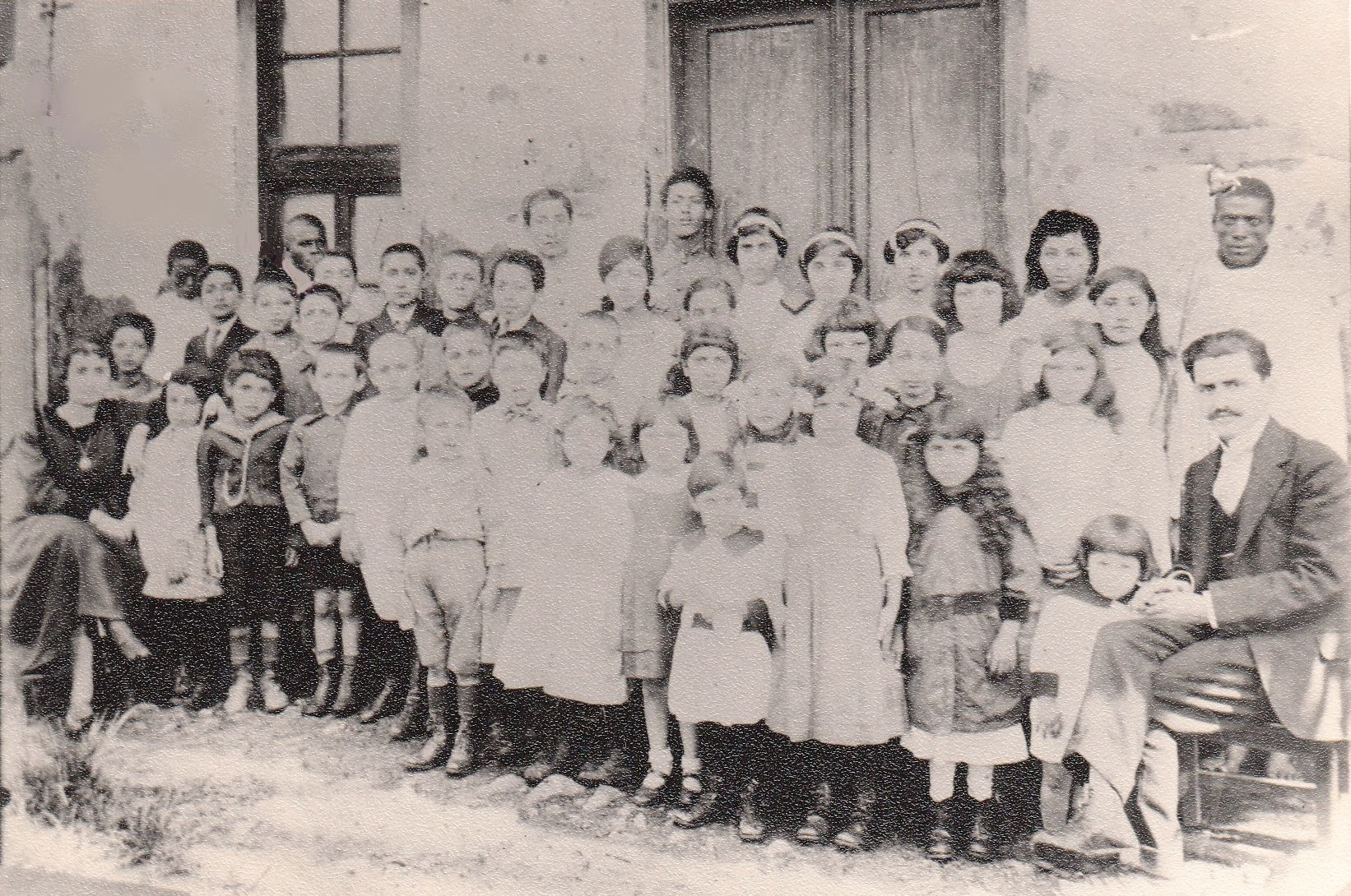 Mari & Vakhinak Bekaryan in 1918, Addis Ababa, with Armenian school pupils